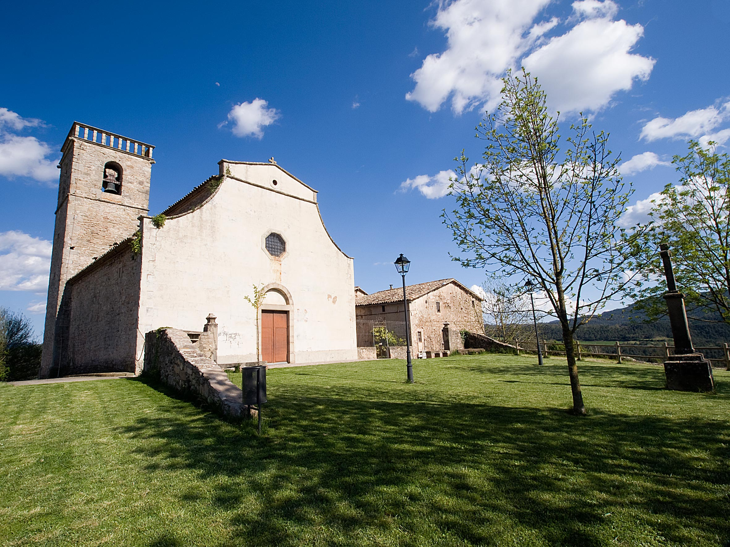 Sant Pere church of Sora (Catalonia, Spain)